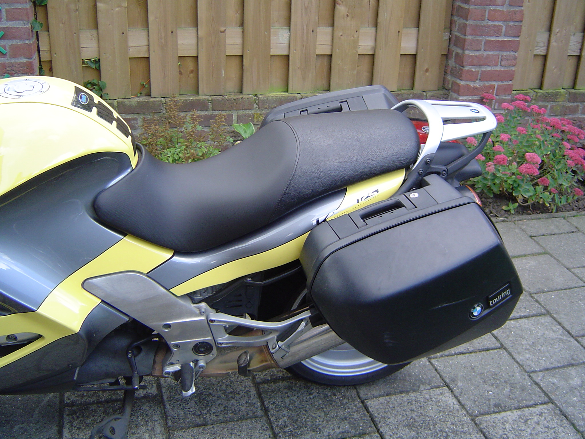 Motor cycle's buddyseat